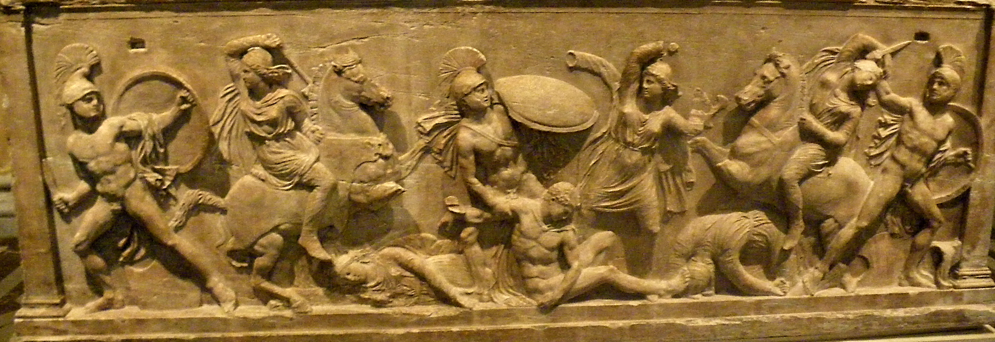 Amazons